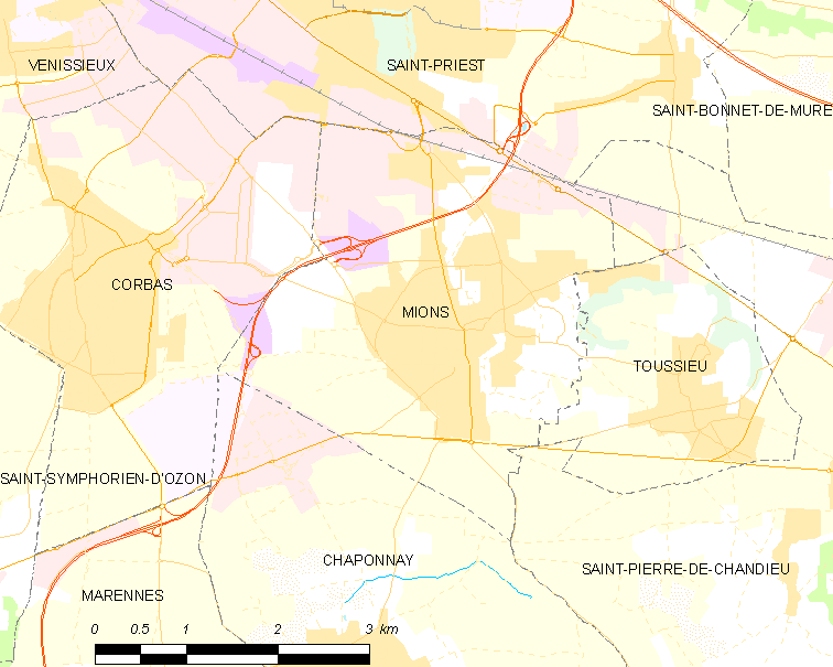 Map of French municipality